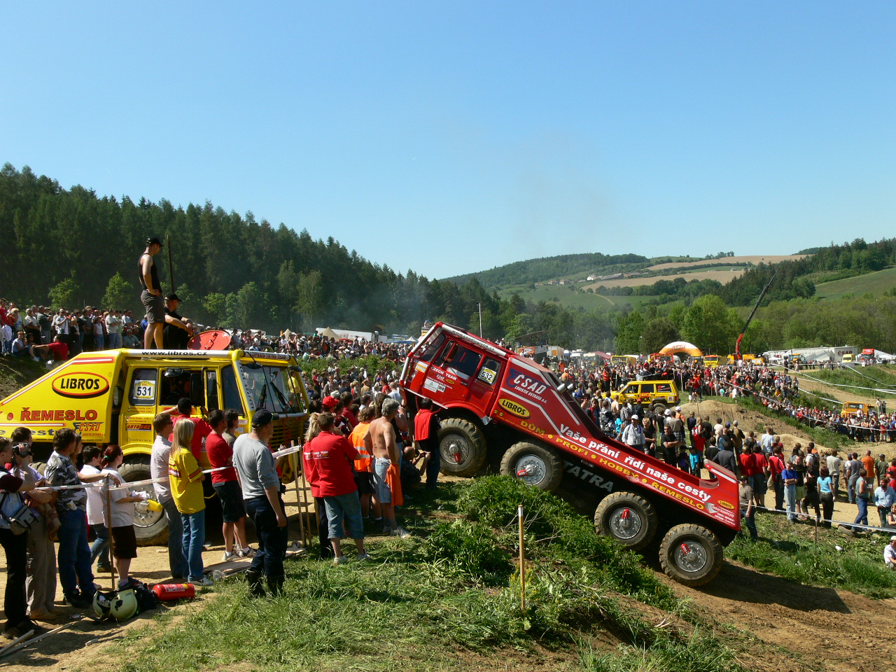 Truck trial extrem show in Mohelnice, Czechia (2 Tatra 813 in front)